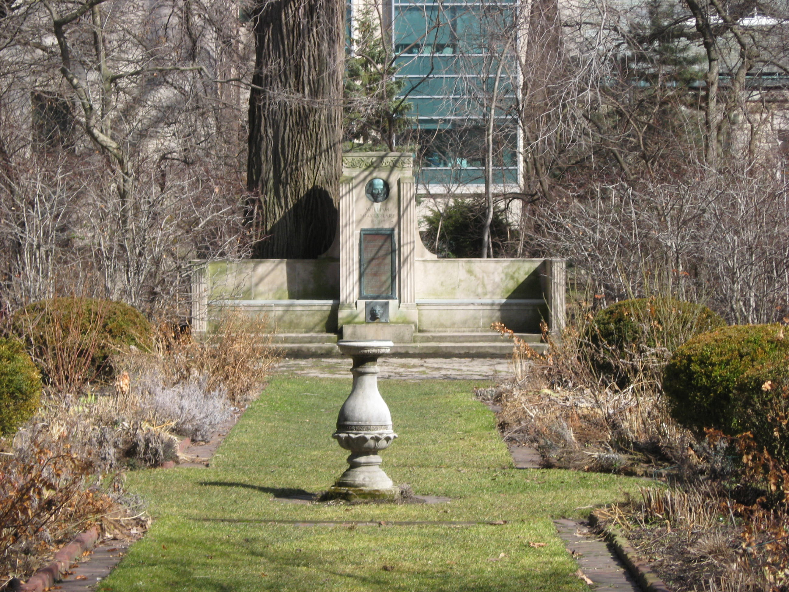 William Shakespeare Garden